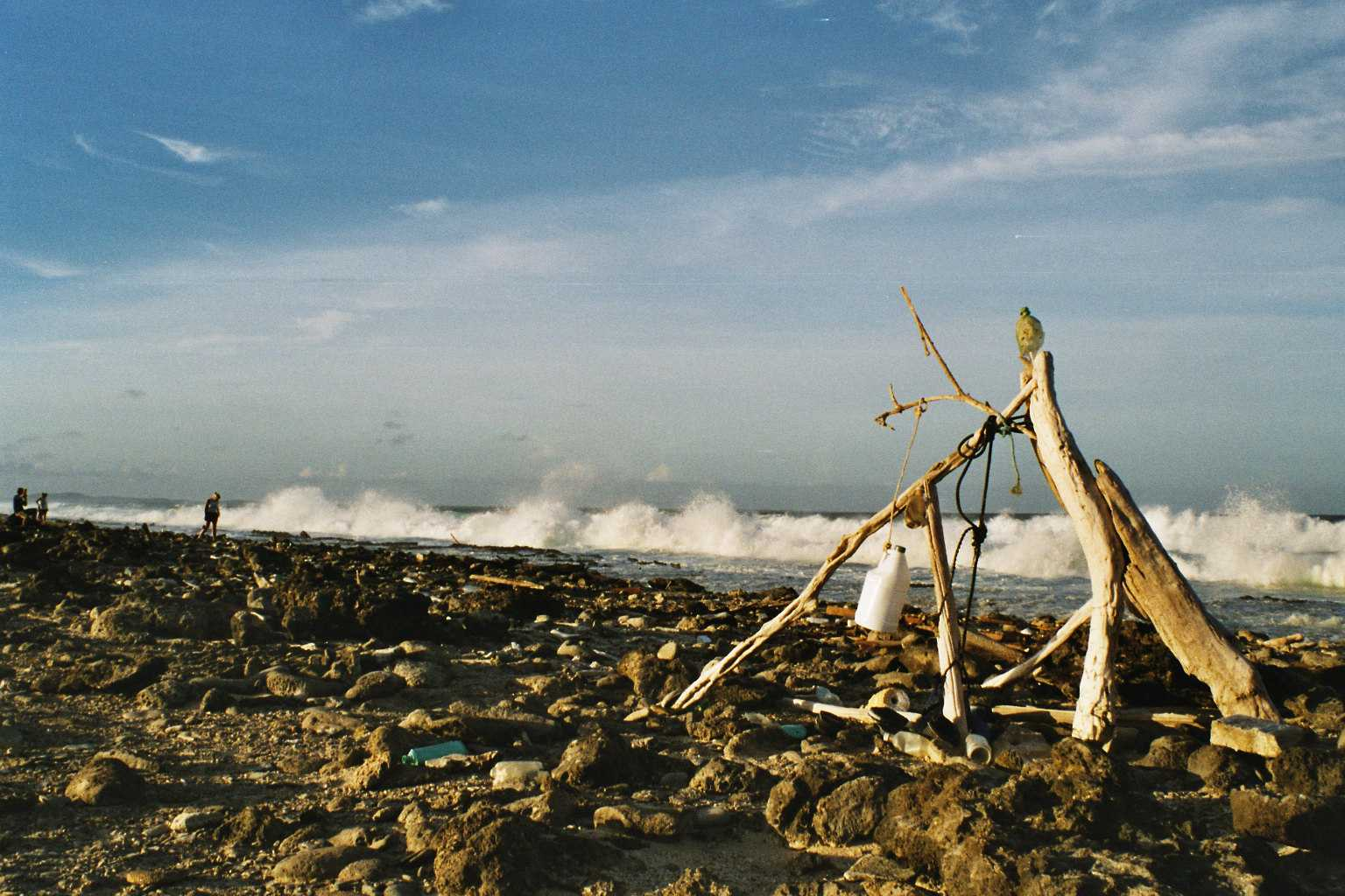 North East coast of Bonaire, Netherlands Antilles. Photo by V.C.Vulto, 2002.